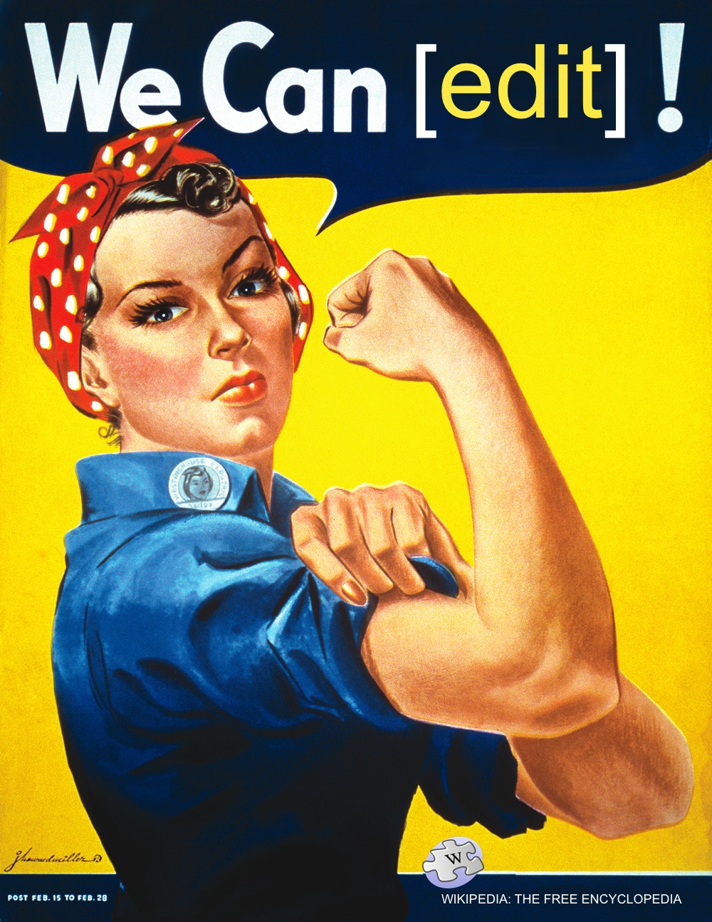 A parody of the famous "We Can Do It!" poster (see File:We Can Do It!.jpg) but with the words "Do It" replaced with a MediaWiki-style section edit link. At the bottom, the Westinghouse logo has been replaced with a Wikipedia puzzle piece logo (File:P wiki letter w.svg) and the words "WAR PRODUCTION CO-ORDINATING COMMITTEE" have been replaced with "WIKIPEDIA: THE FREE ENCYCLOPEDIA".